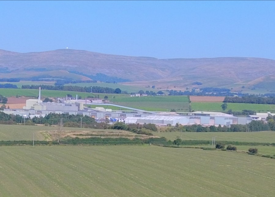 British Gypsum plant at Kirkby Thore looking from the village (trimmed from Kirkby Thore from A66.jpg)